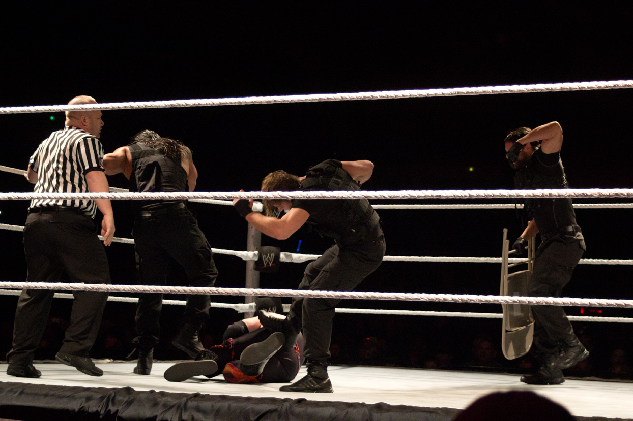 The Shield attack Kane during a WWE house show on February 2, 2013 in Montgomery, Alabama.